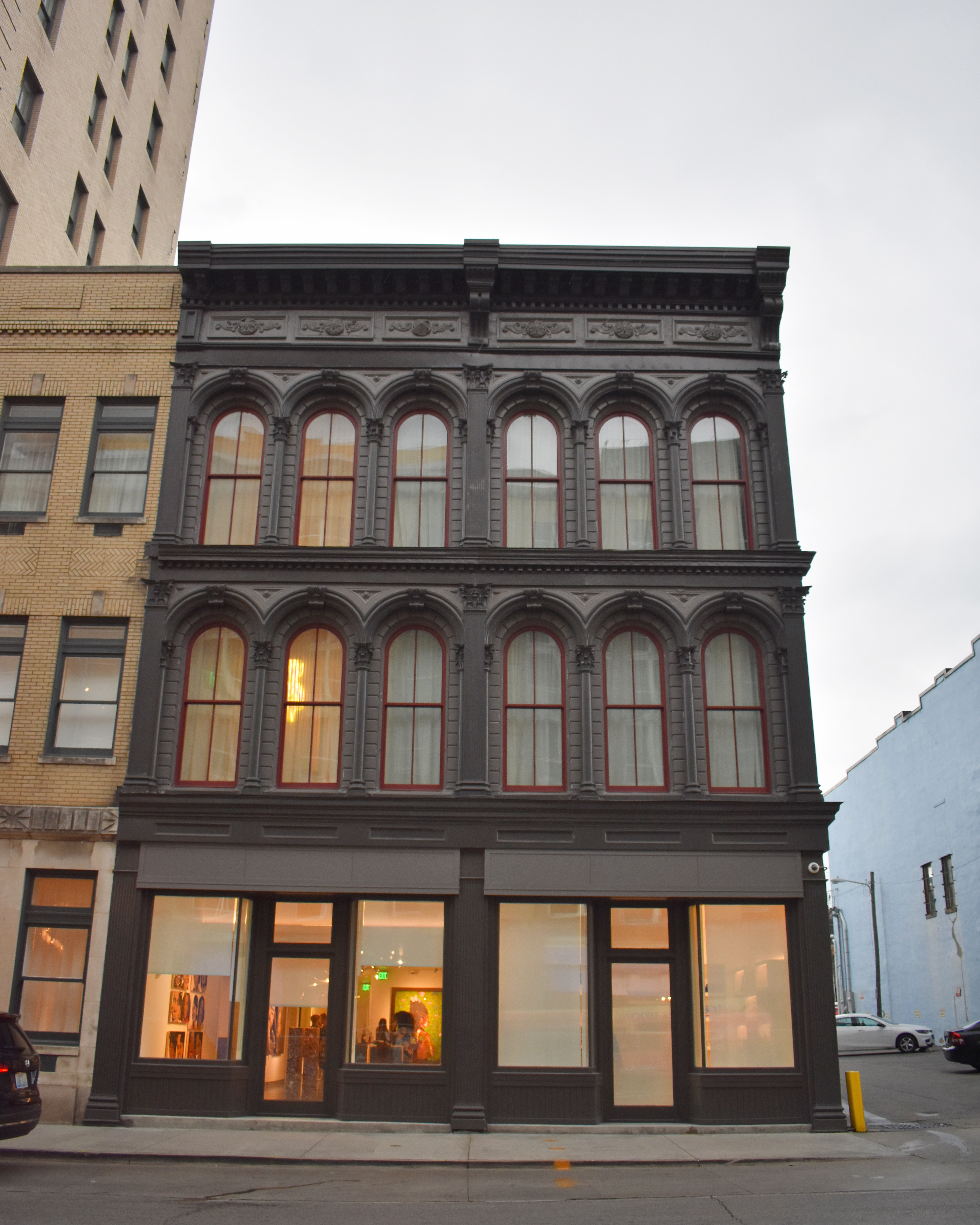 The Higgins Block (1872) in Lexington, Kentucky, is listed on the National Register of Historic Places.